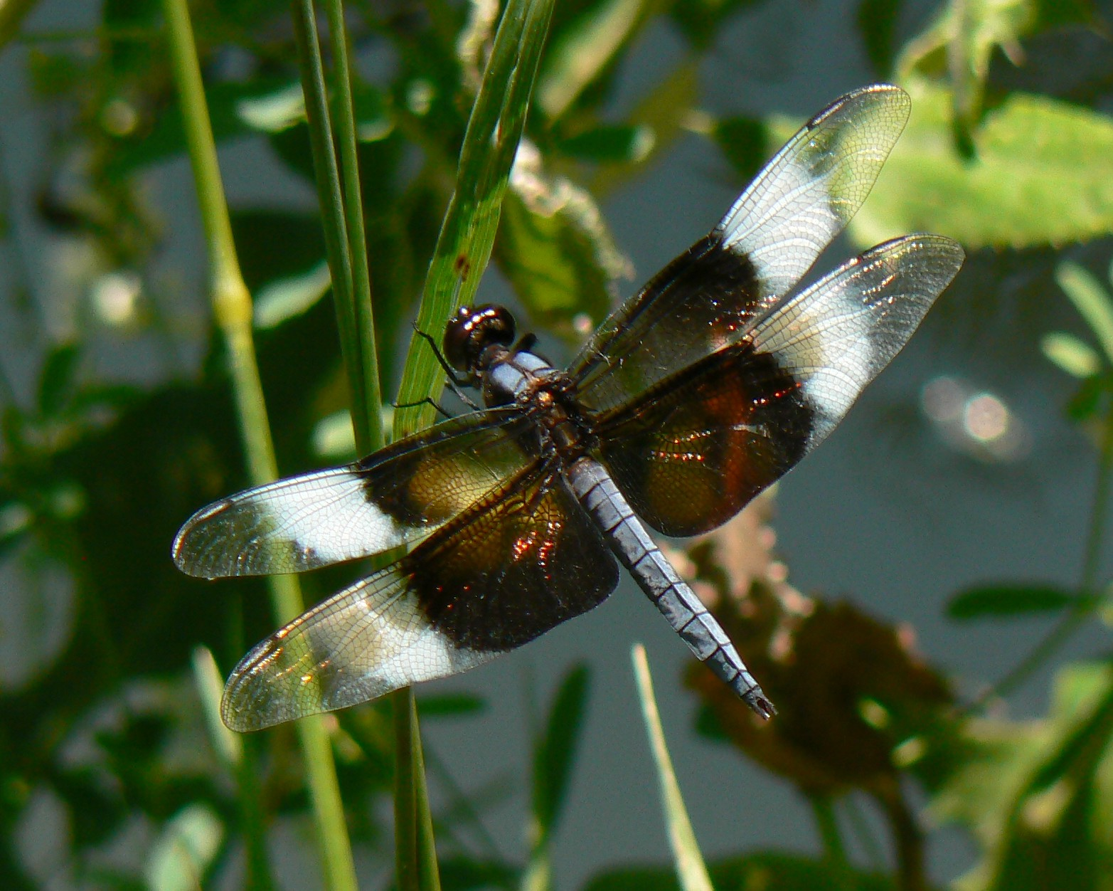 Widow Skimmer dragonfly...taken at Chalco Hills Recreation Area in Gretna, Nebraska, USA.